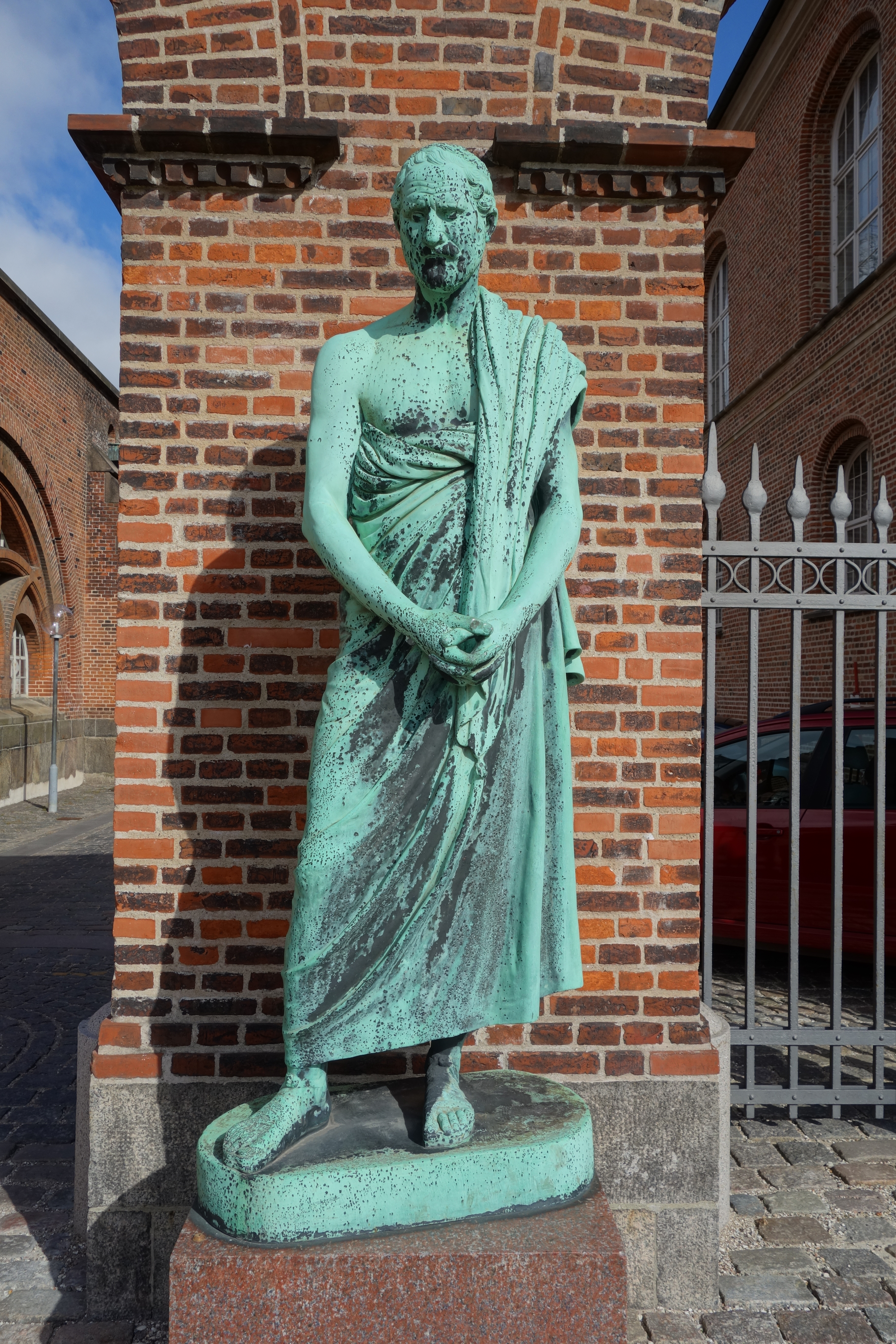 Demosthenes statue outside the entrance to the Library Garden on Christians Brygge in Copenhagen, Denmark